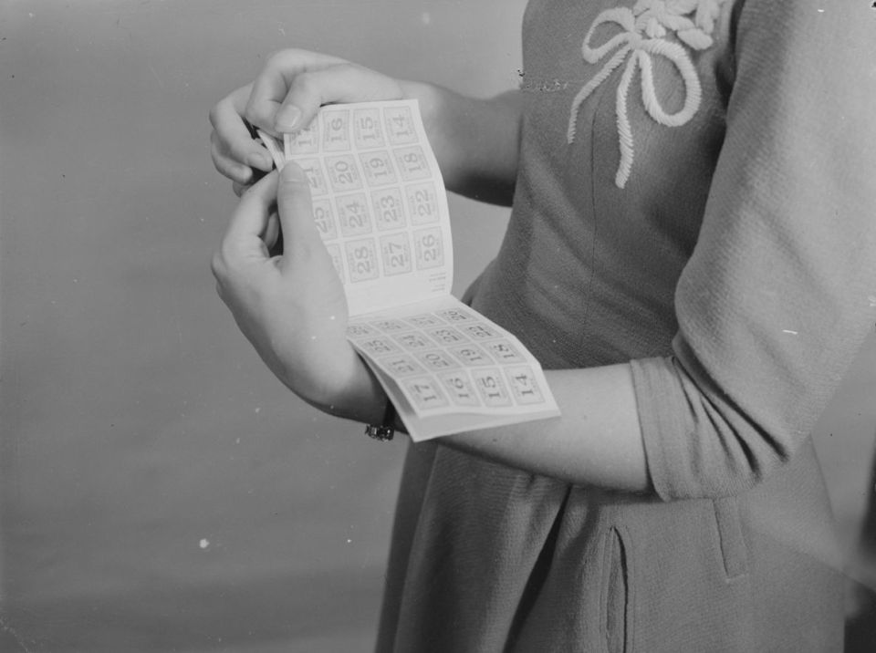 Marjorie Aitken flips rationing stamp booklet reserved for sugar purchase.